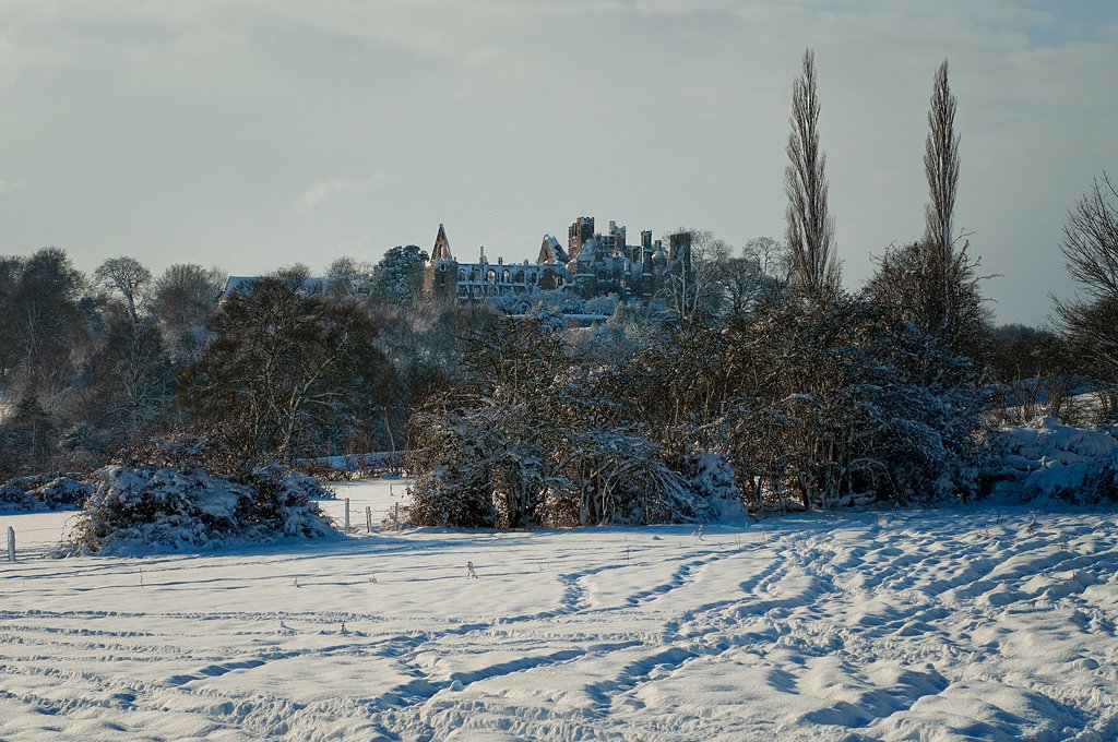 View of Wingfield Manner from the NNE side, during the heavy snow of December 2010.